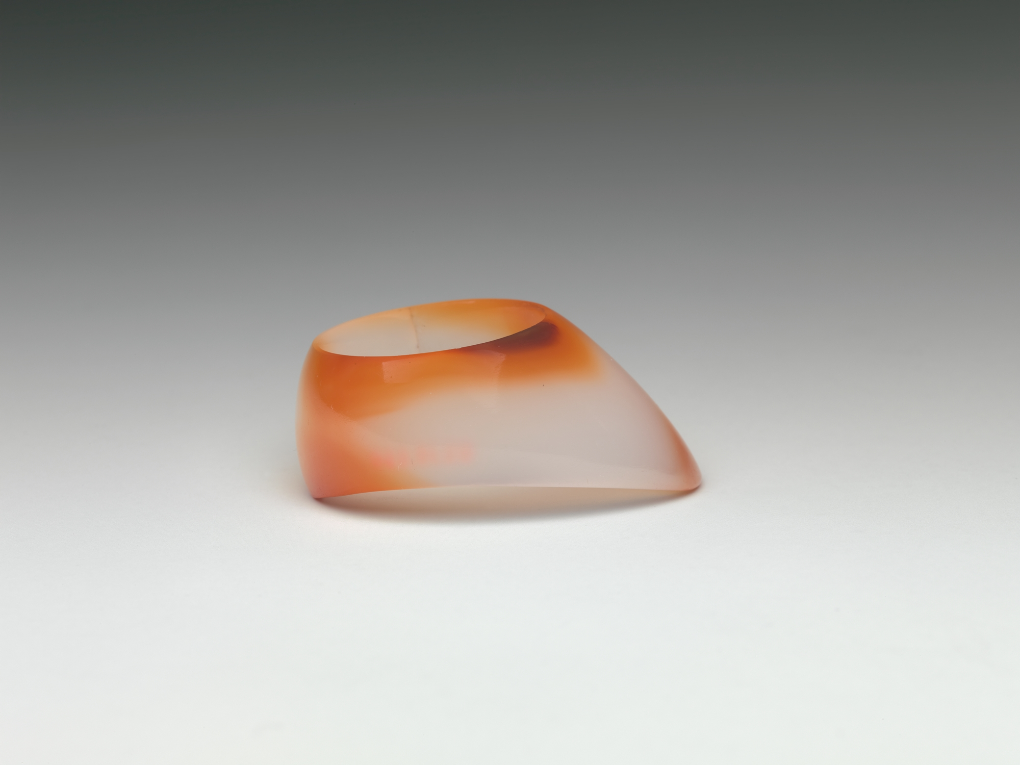 China; Archer's thumb ring; Hardstone